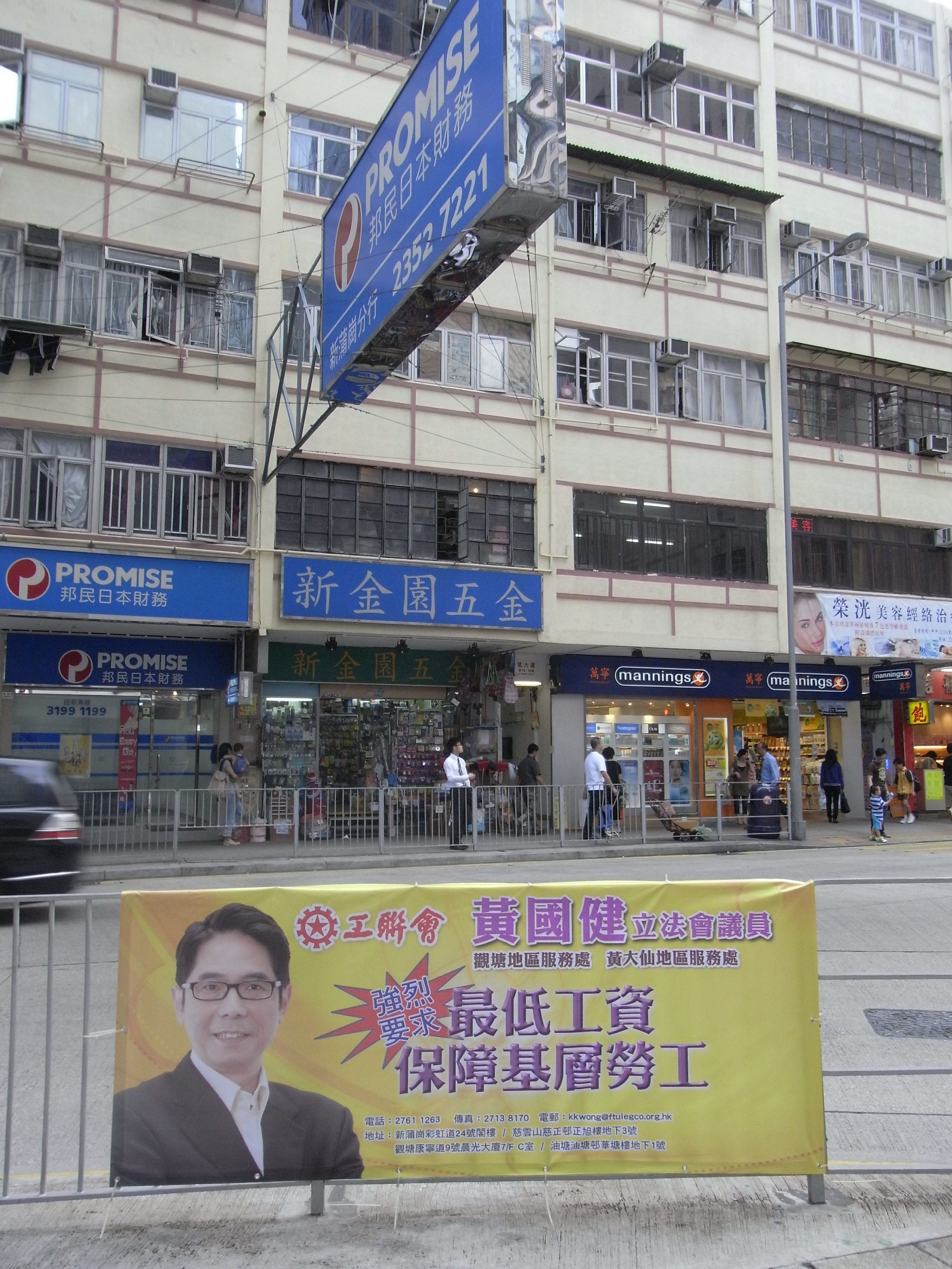 新蒲崗 黃國健 @ 爵祿街, 近 東盛大廈 邦民日本財務